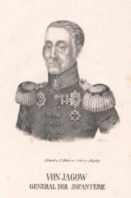 General der Infanterie Friedrich Wilhelm von Jagow